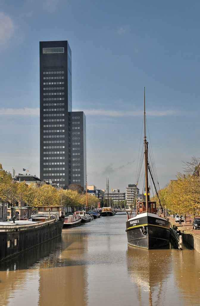 Achmeatower seen from bridge Willemskade.